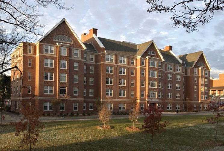 Mills Hall at the University of New Hampshire Durham.